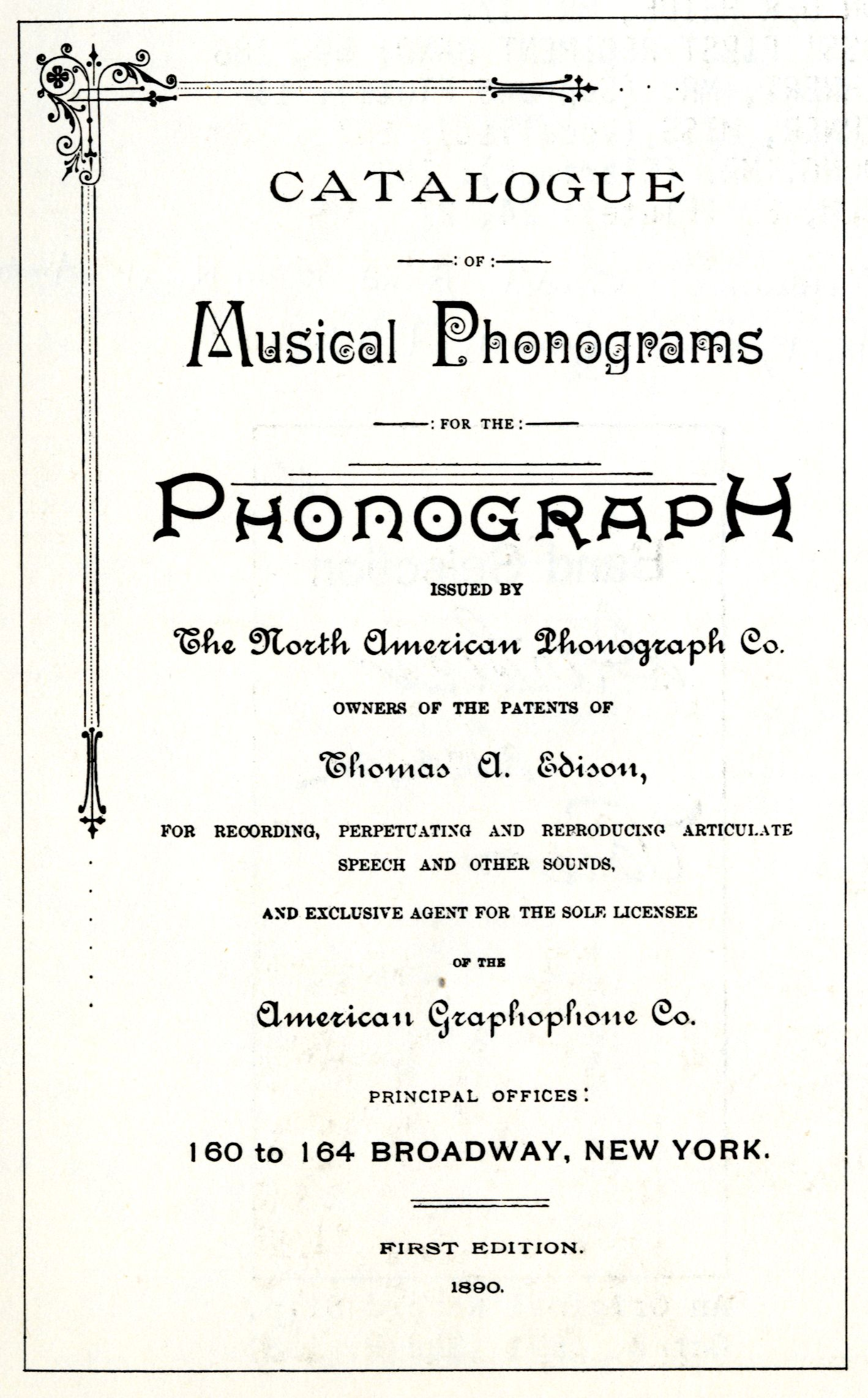 The title page of North American Phonograph Company's first catalog, 1890. Incidentally, this was the first record catalog ever published.